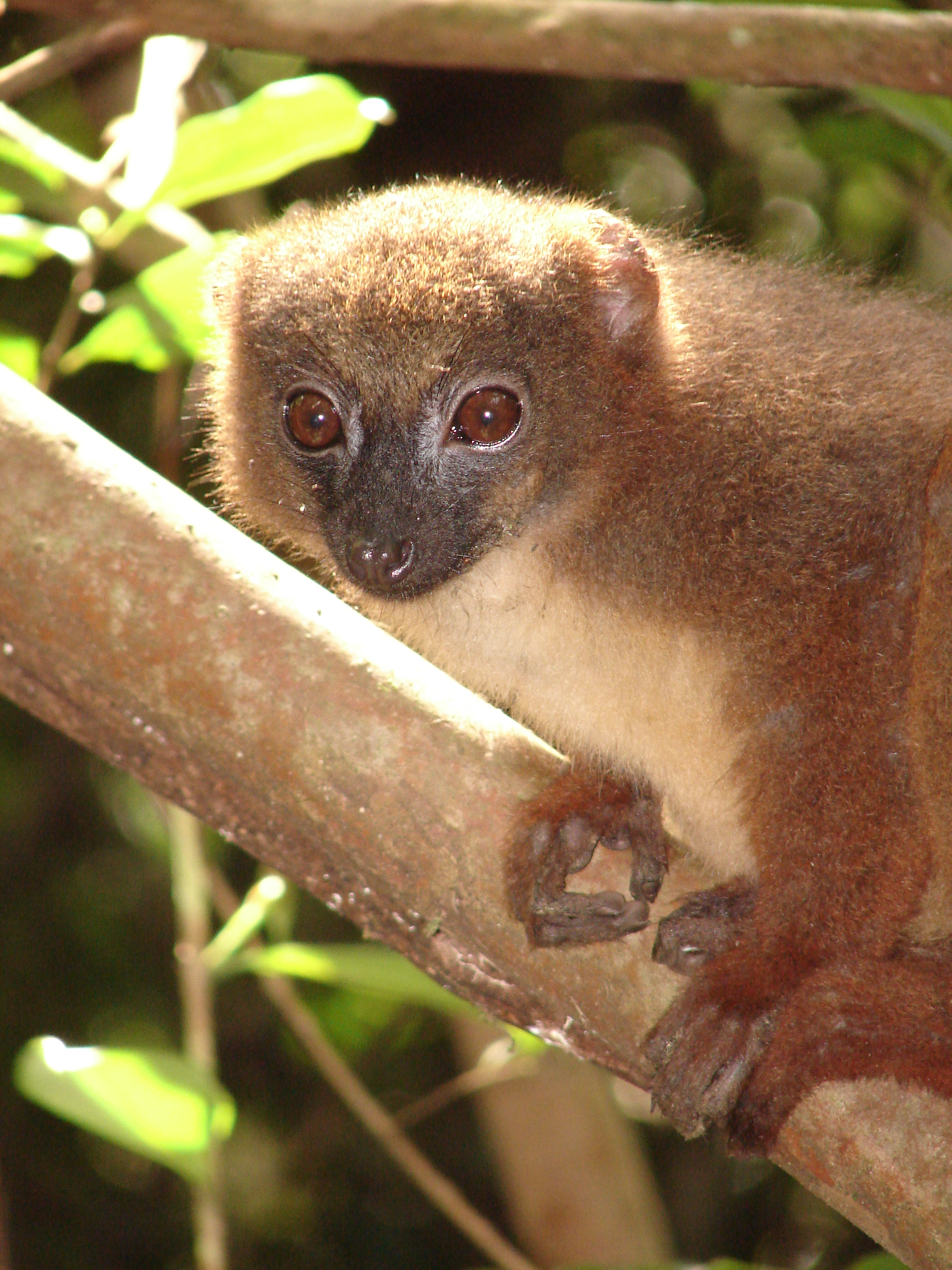 Red-bellied Lemur, Ranomafana National Park